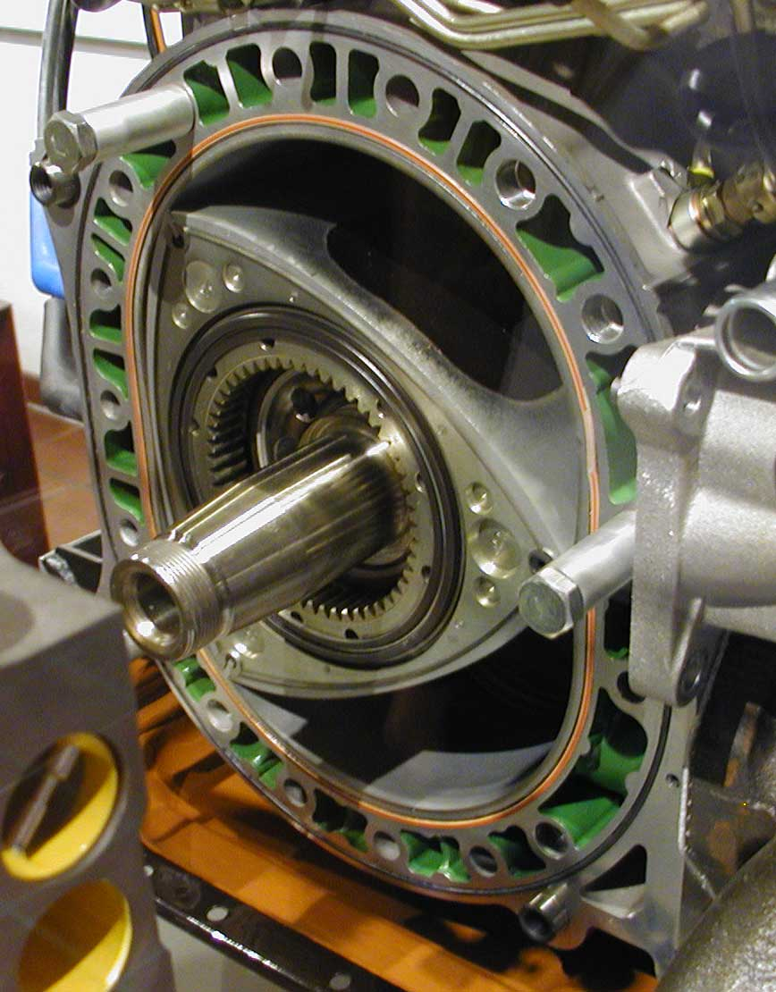 A Wankel engine in Deutsches Museum (Munich, Germany)